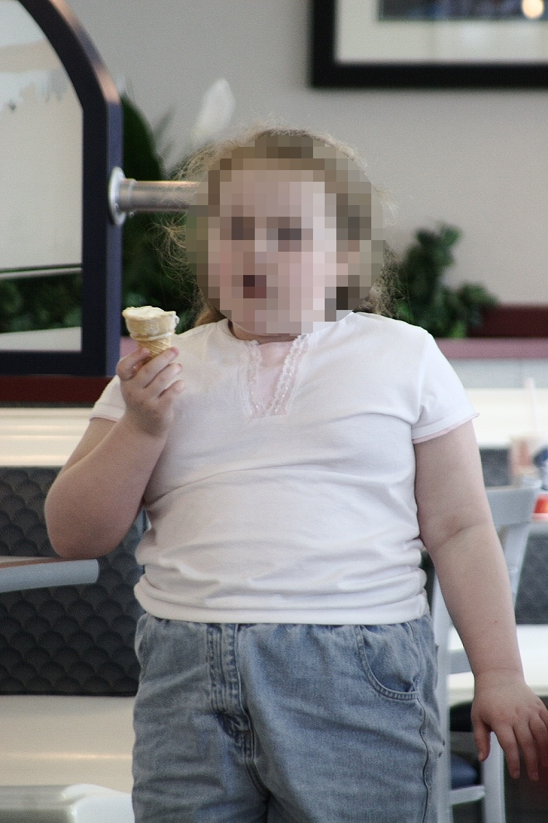 McDonald's patron, 2006.